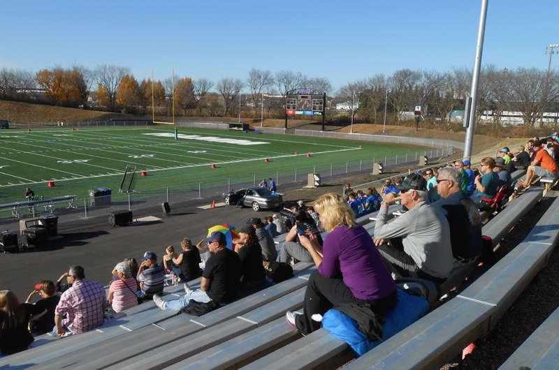 North End of Minor Football Field (old Gordie Howe Field) Playoff Game Saskatoon Hilltops host Winnipeg Rifles. Game ends 43 - 13 in favour of the Hilltops. This view shows the new scoreboard The previously used score clock has been relocated to Lemburg, Saskatchewan.